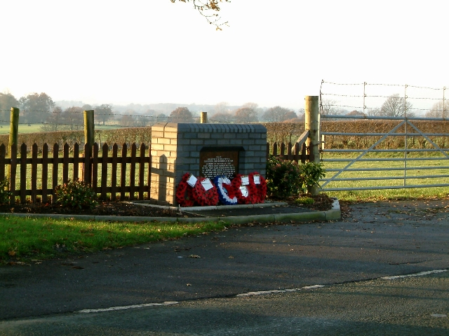 Memorial to the Airmen who died when their plane disintegrated on the 28th October 1944